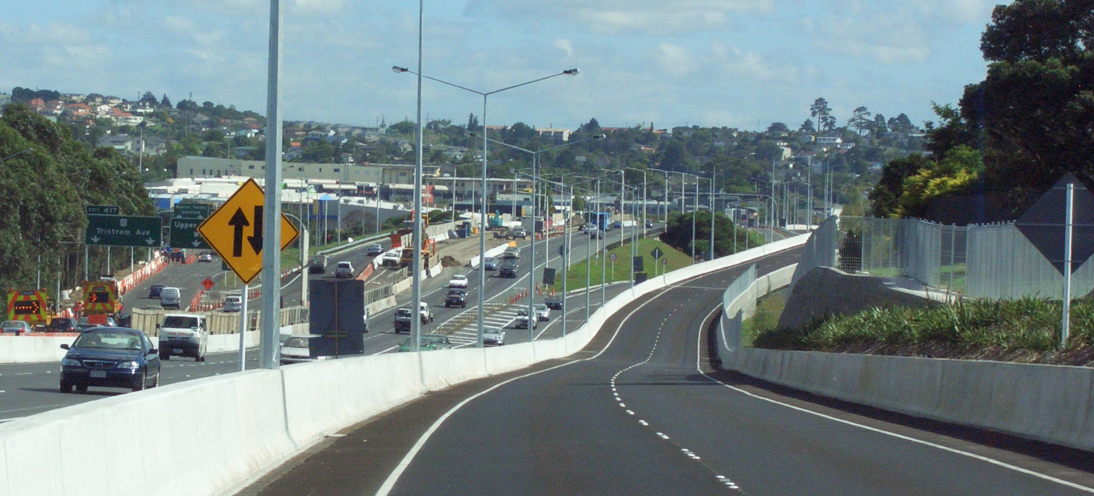 Auckland's Northern Busway adjacent to the Northern Motorway, State Highway 1. The view is looking north toward the Tristram Avenue viaduct, which avoids the motorway ramps to that road.